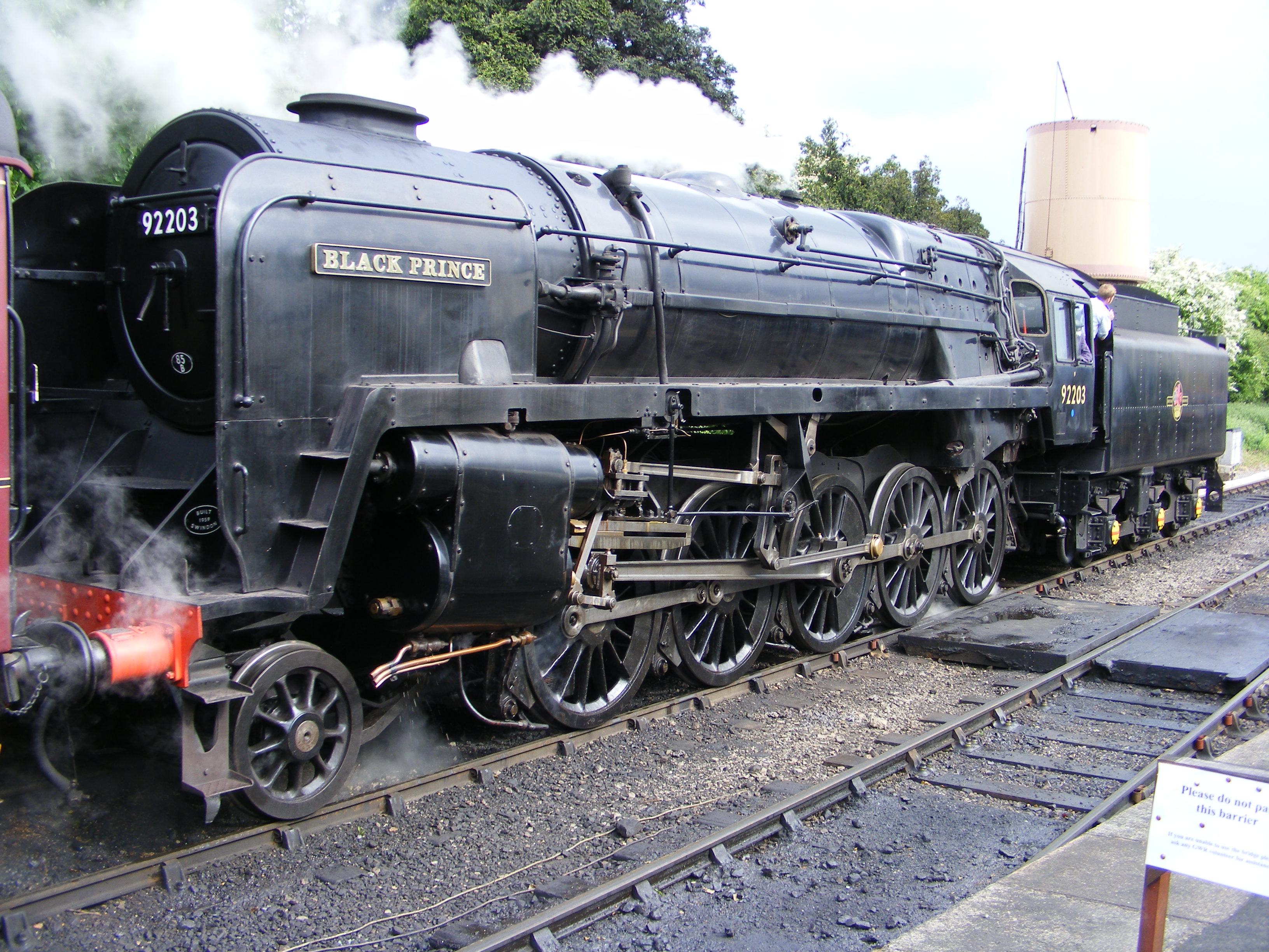 Black Prince